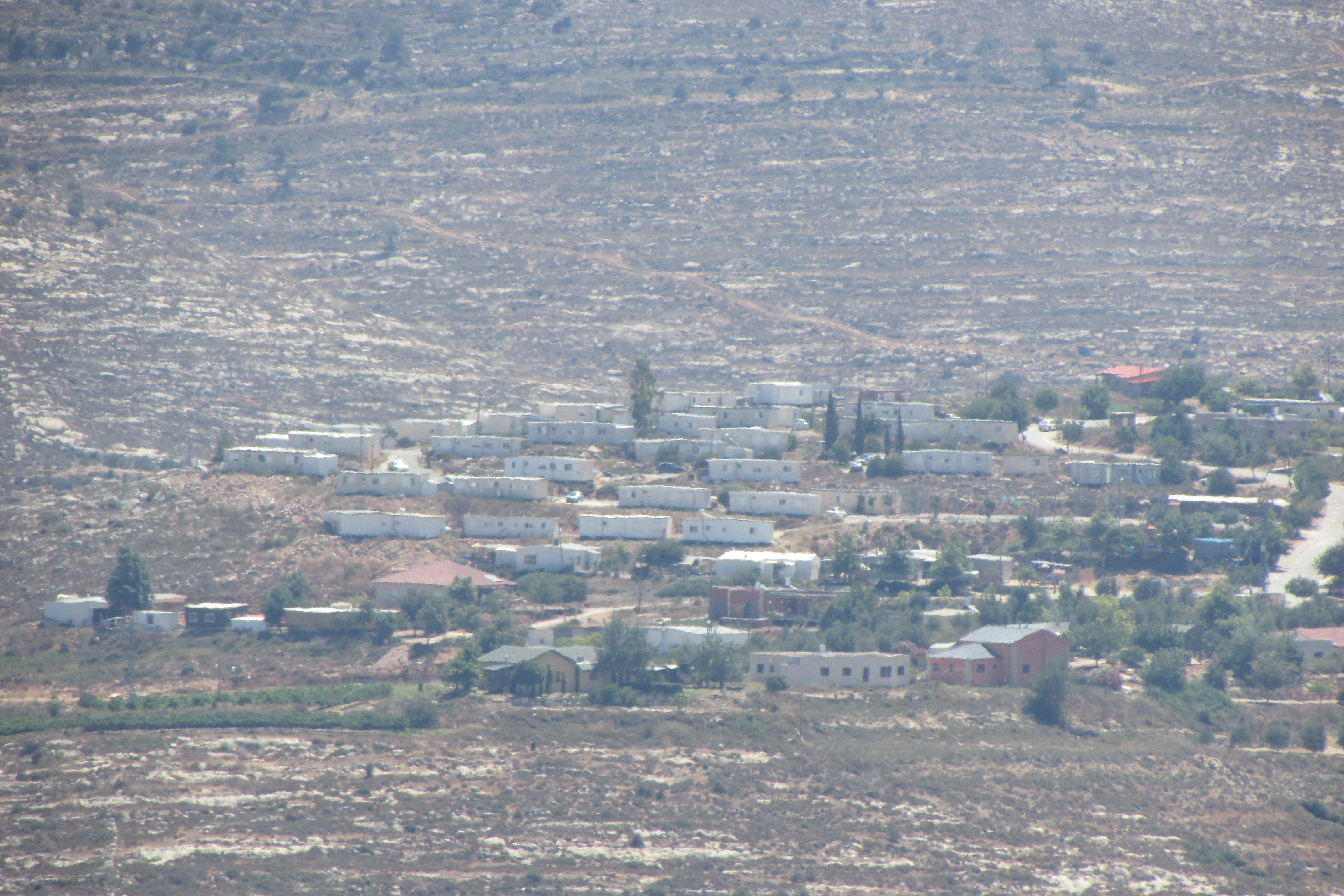 Giv'at Harel from Maale Levona